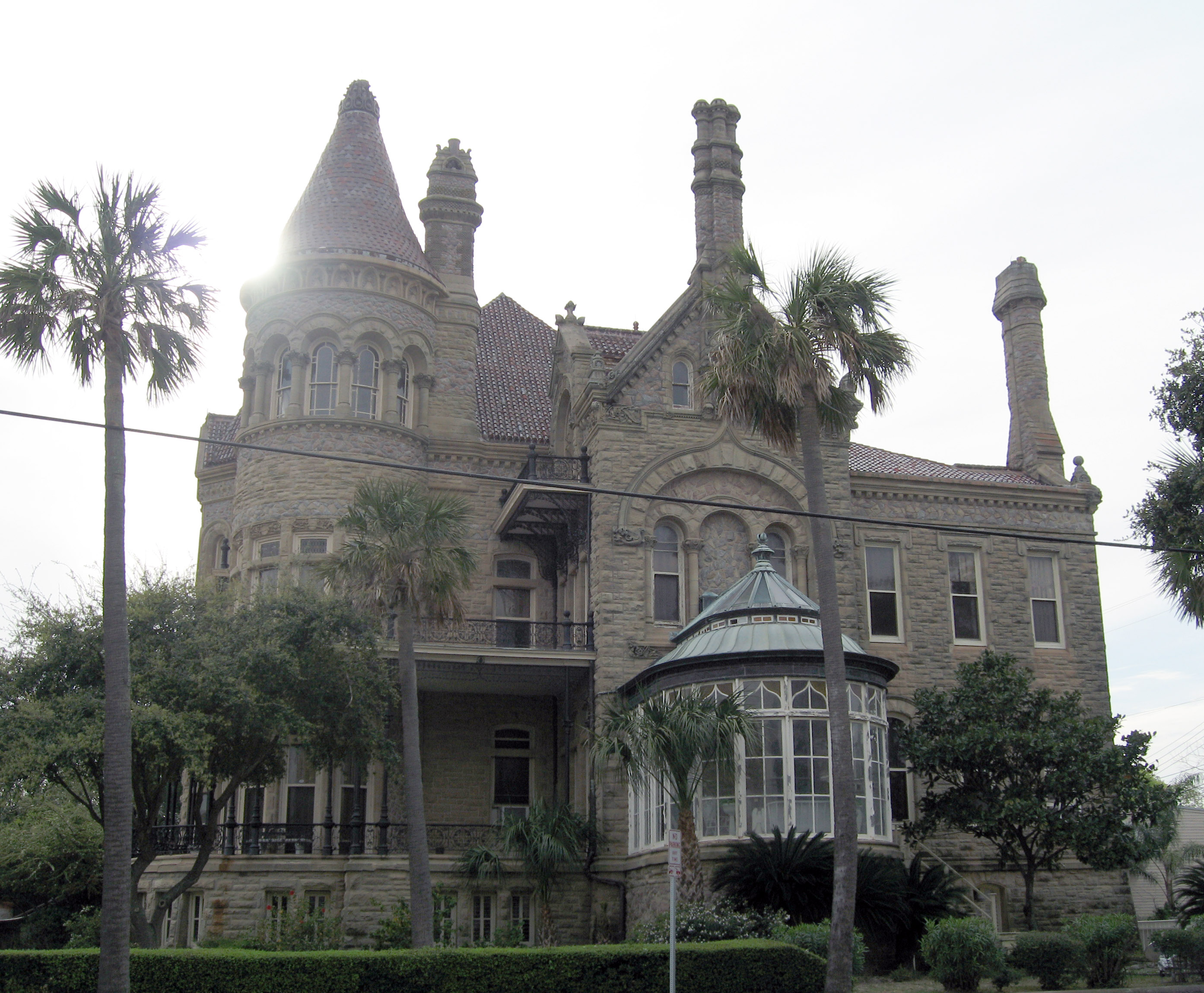 The Bishop's Palace on Broadway and 14th St. in Galveston, Texas. It was listed in the National Register of Historic Places in 1970.